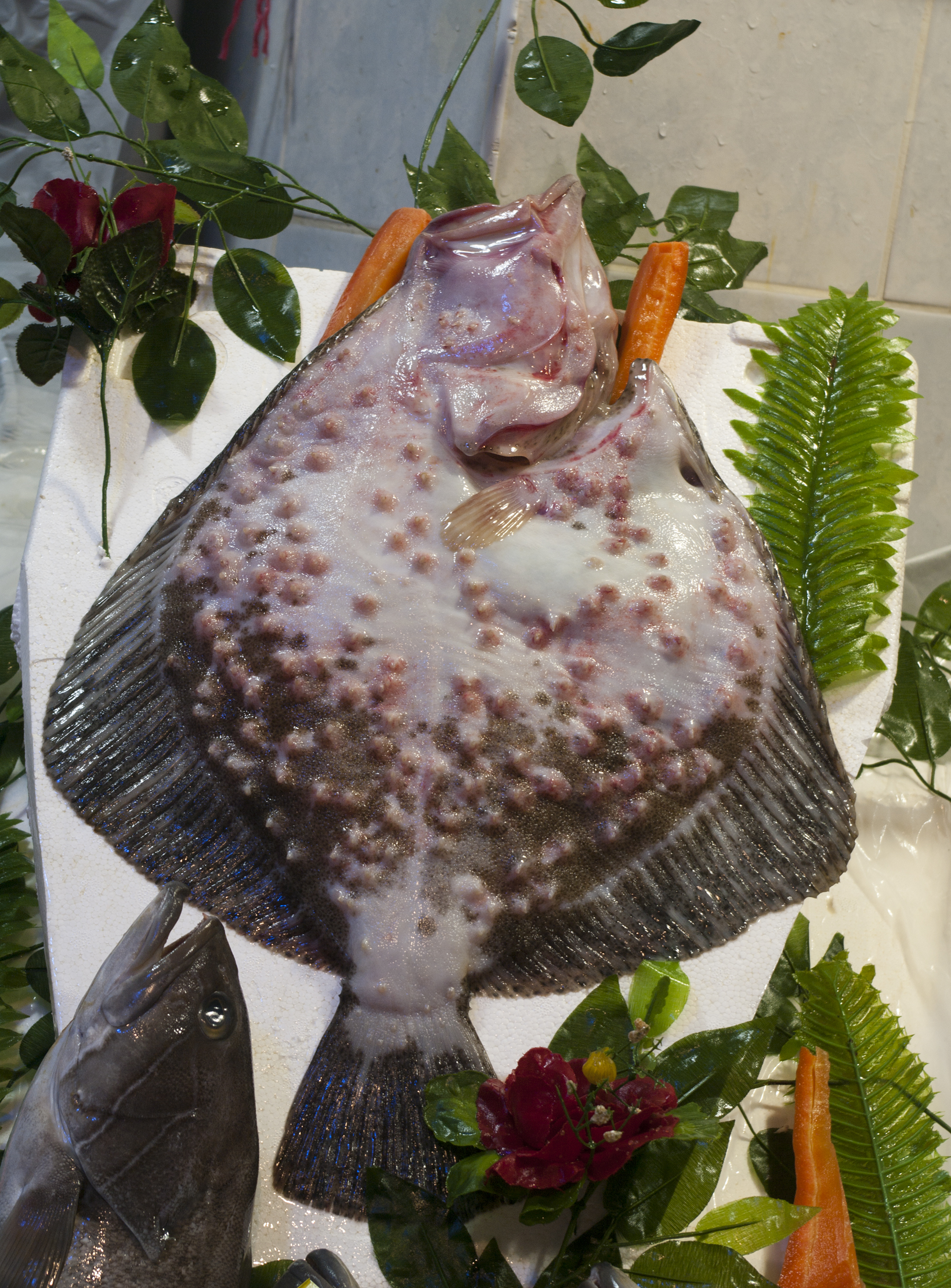 Underside view of a turbot (Scophthalmus maeoticus) on the table in a fish market. Eskişehir - Turkey.